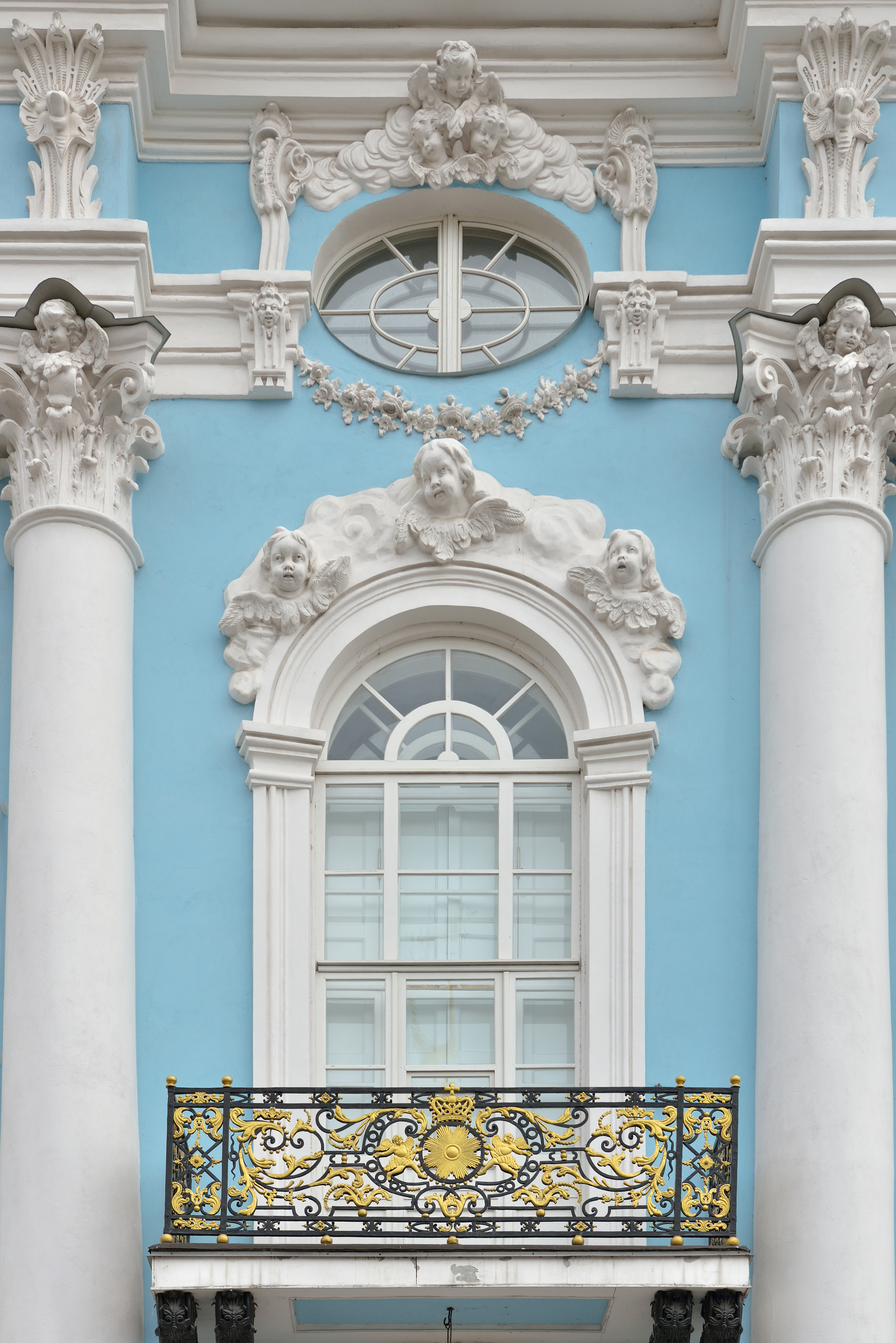 The St. Nicholas Naval Cathedral in Saint Petersburg.